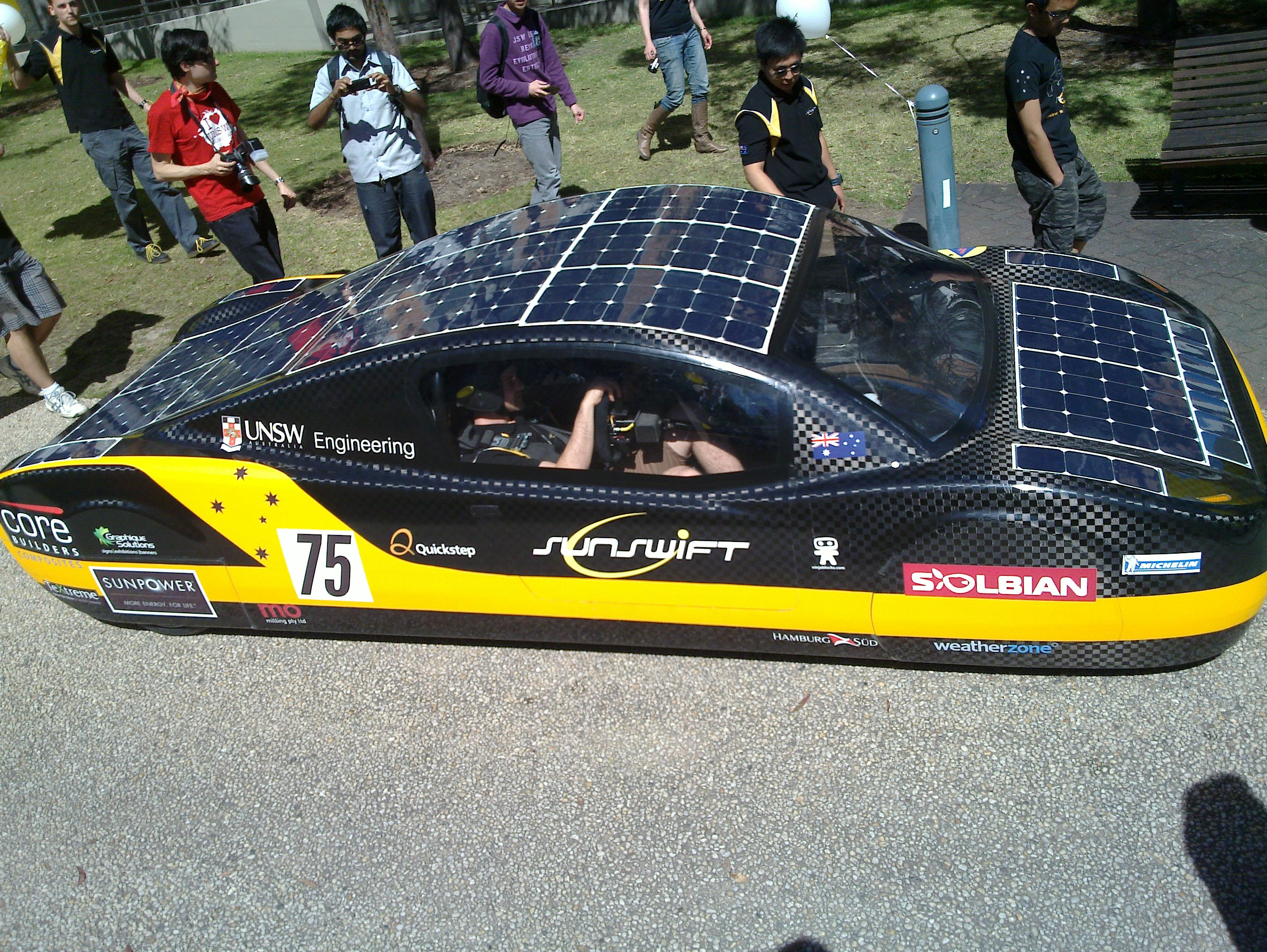 eVe as seen from above; during send-off parade